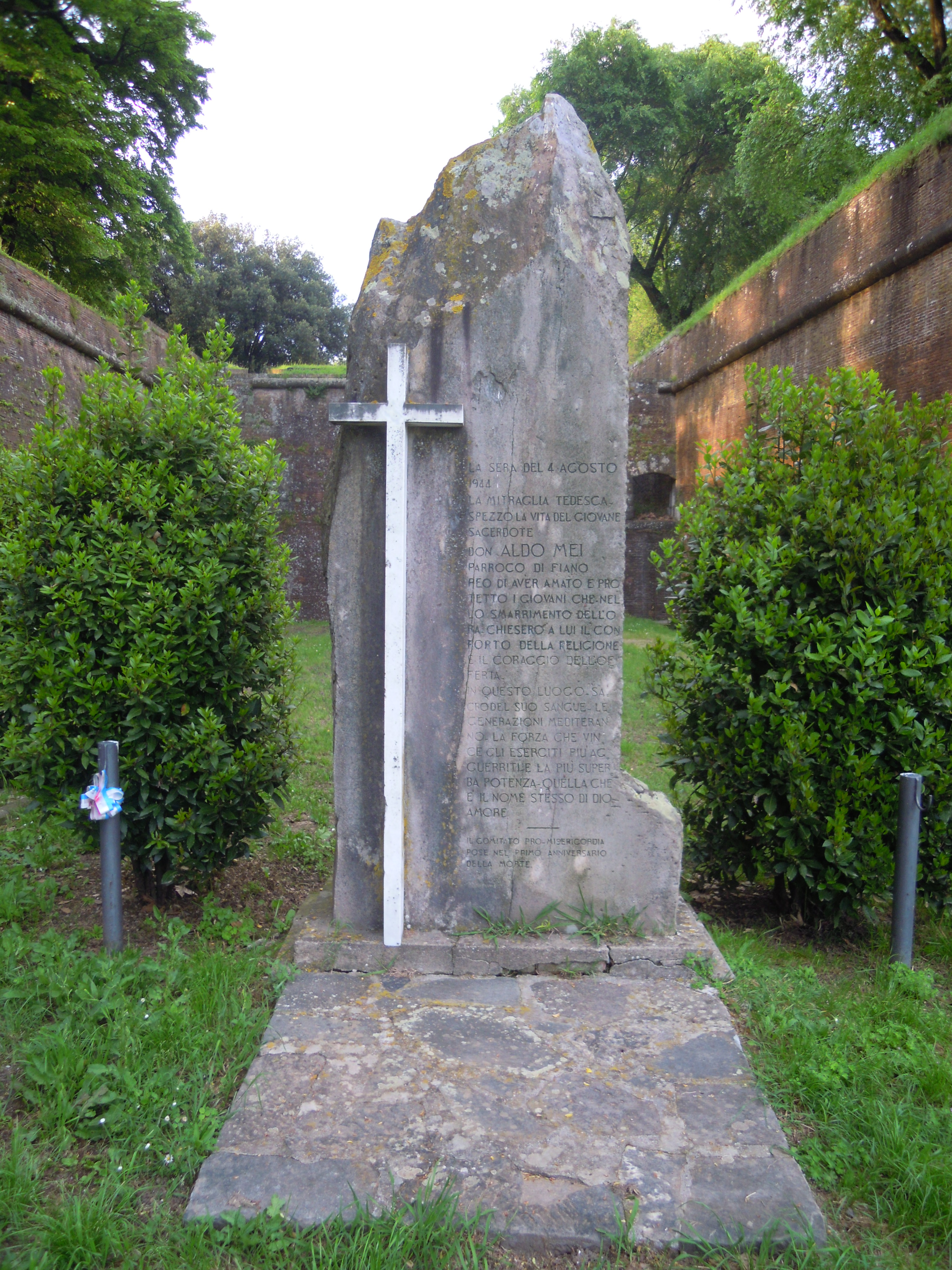 Lapide in Memoria di Don Aldo Mei